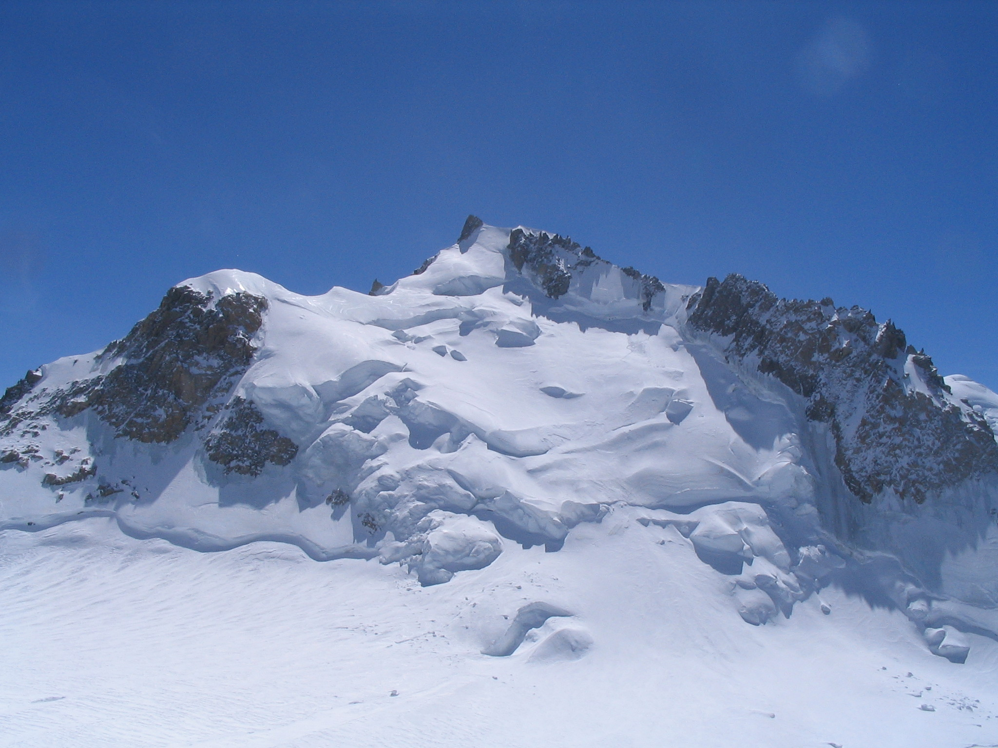 Mont Maudit seen from Mont Blanc du Tacul. heading sw